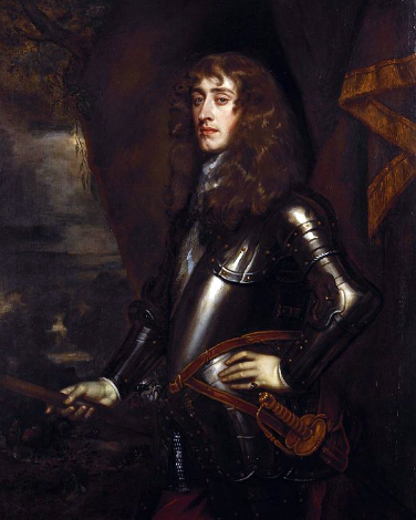 James II, when Duke of York (1633-1701)